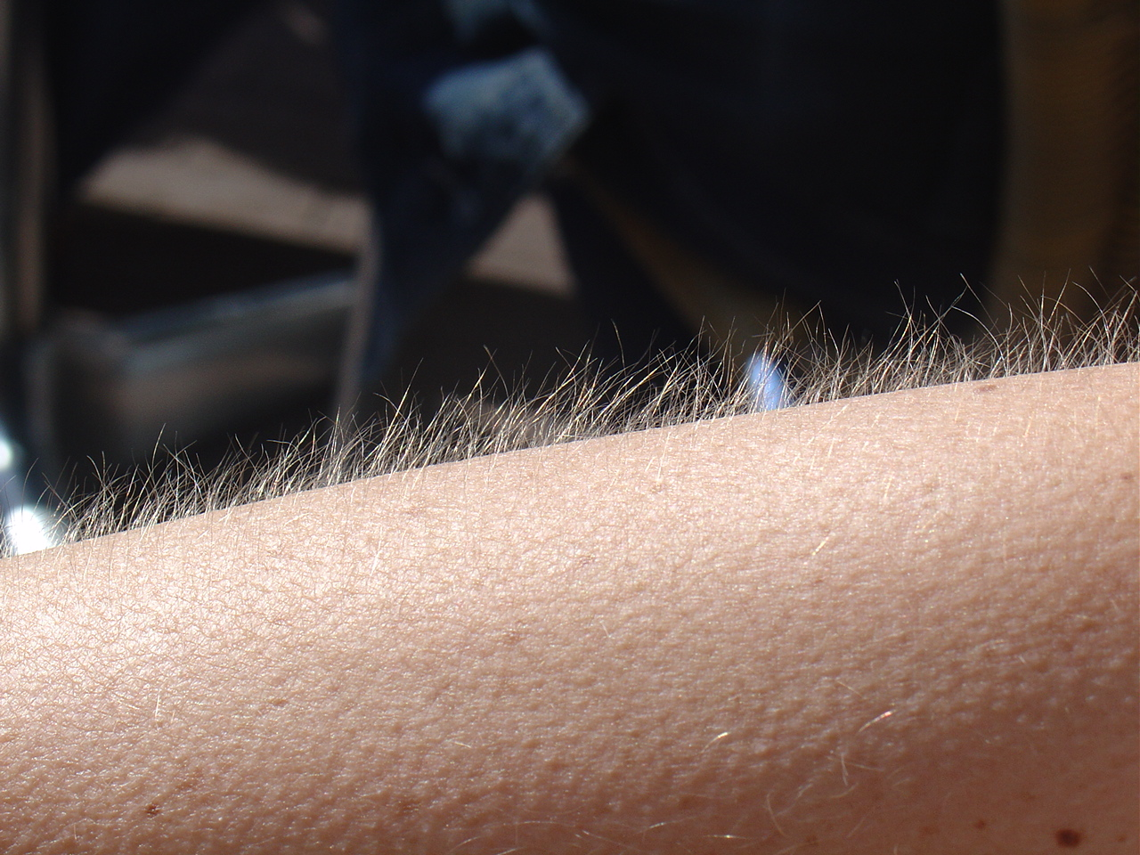 Goose bumps provoked by a fresh breeze. Photo taken in Amsterdam, the Netherlands.